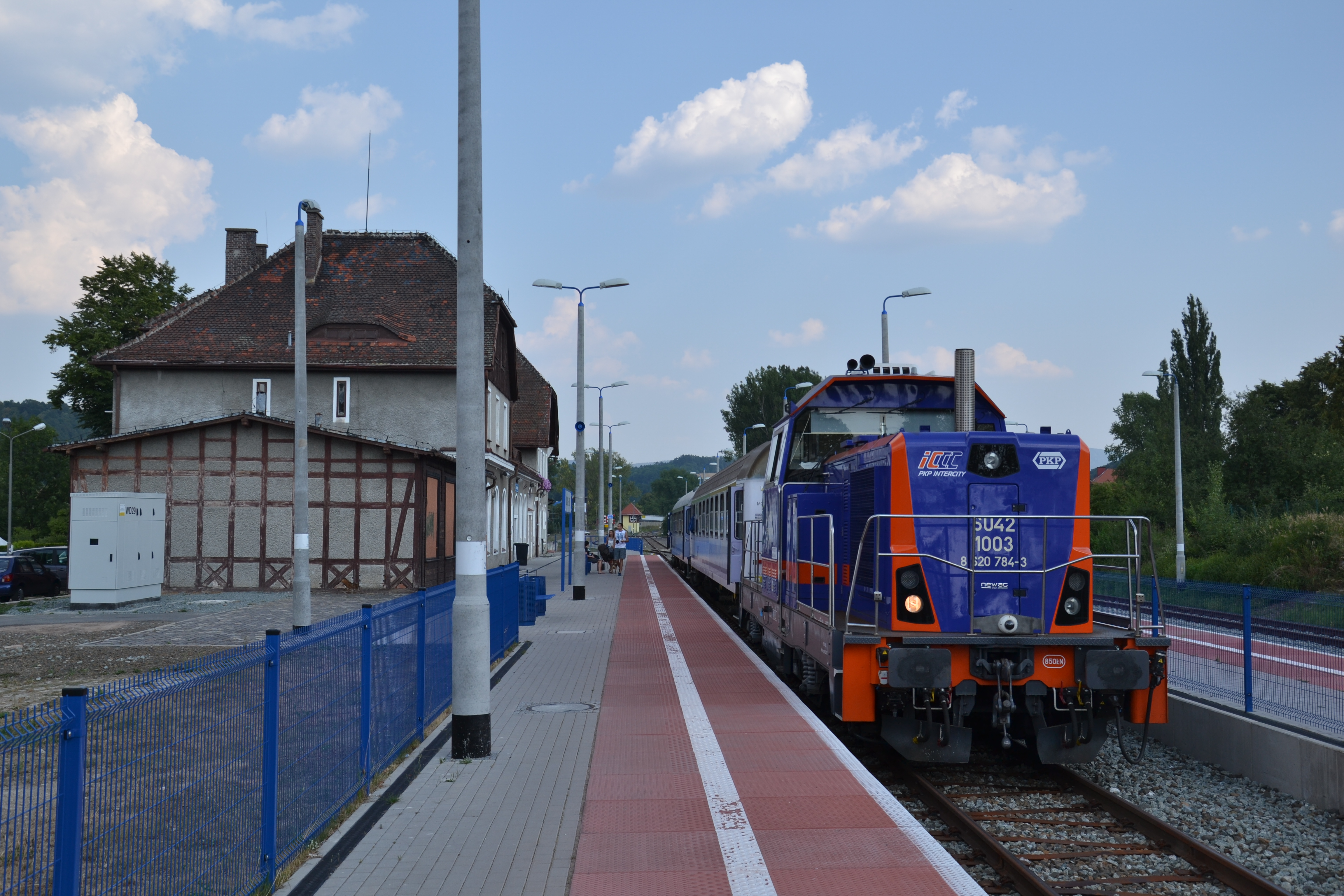 SU42-1003 na stacji Kudowa Zdrój This photo was taken during Railway Wikiexpedition 2015 set up by Wikimedia Polska Association in cooperation with Fundacja Grupy PKP.You can see all photographs in category Wikiekspedycja kolejowa 2015.